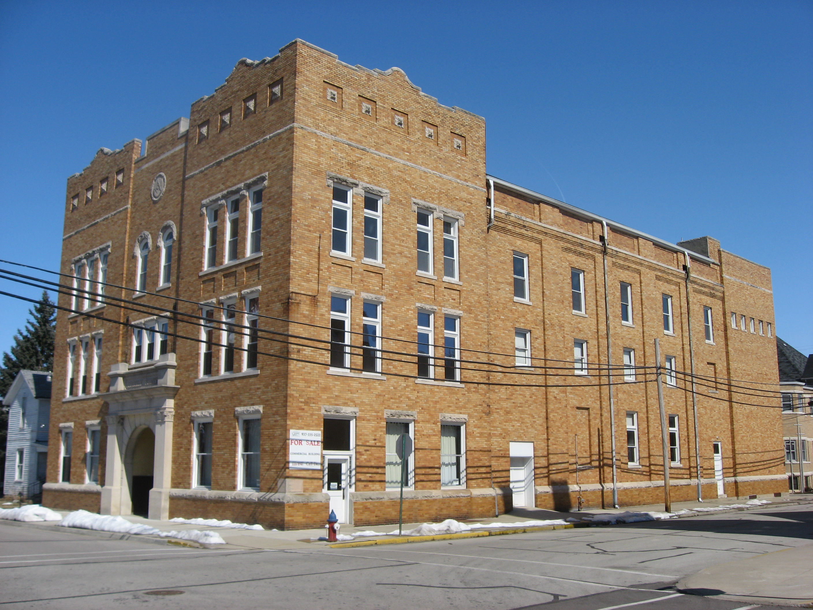 Former Newberry Township building in Covington, Ohio, United States, located on the northeastern corner of the intersection of Wright and Pearl Streets.